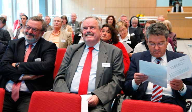 Erik Bettermann (center), Westwind Chairman since May 2014, Klaus Brückner (left), Rüdiger Oppers